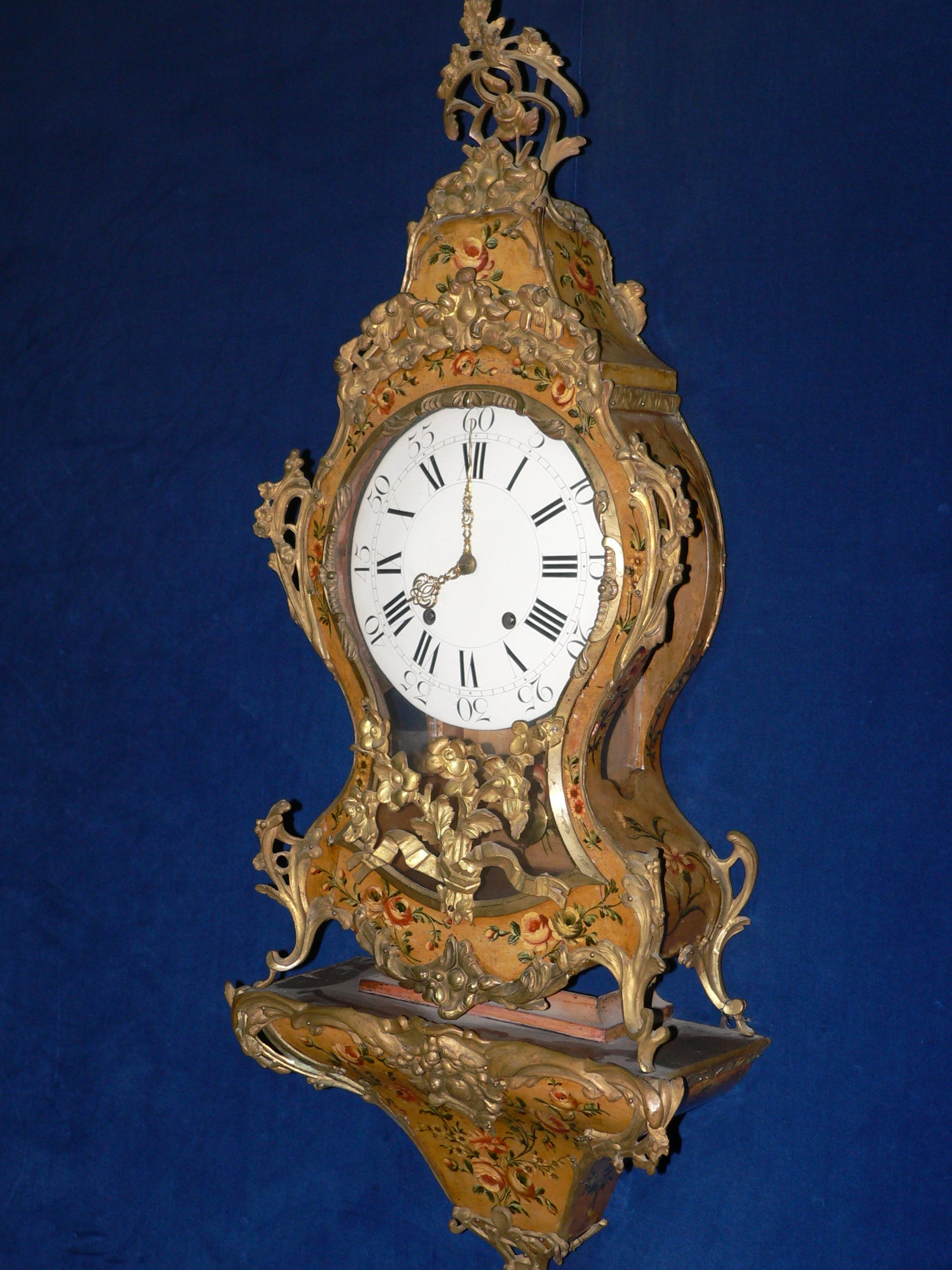 musee d'Art et d'Histoire de Neuchatel